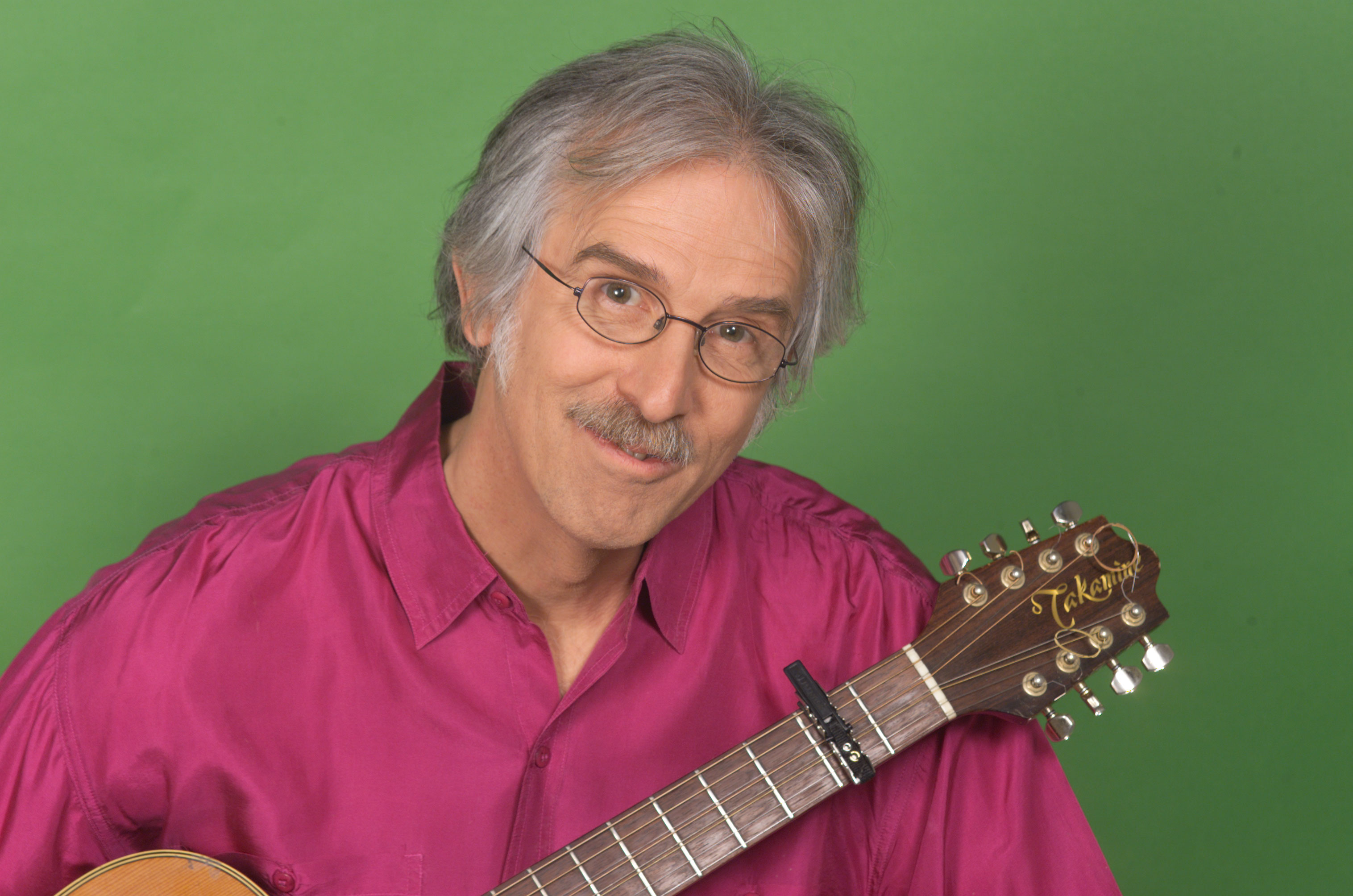 American musician Peter Alsop with a guitar